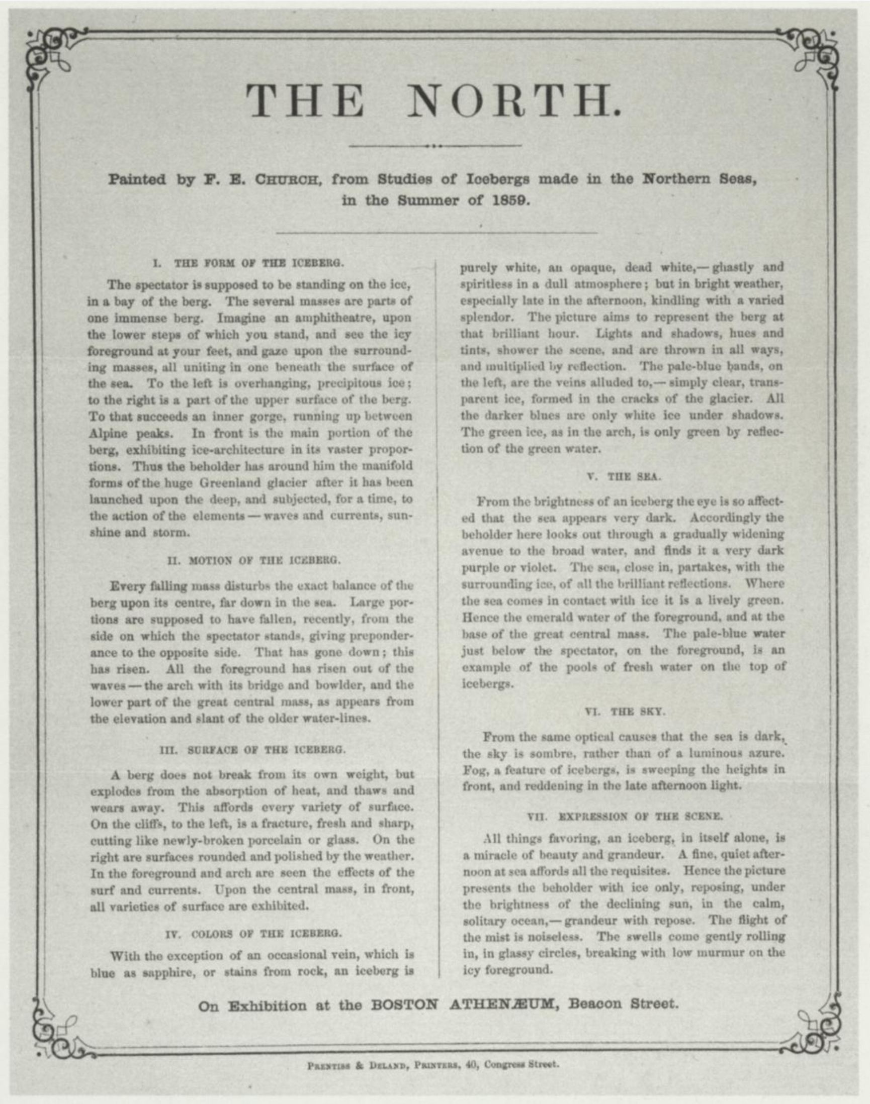 Broadside for Frederic Edwin Church's painting The Iceberg ("The North")